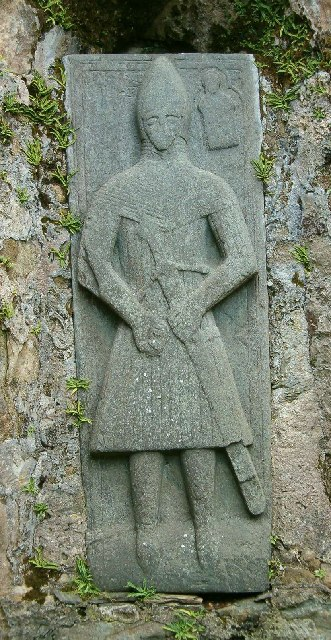 Graveslab in Kildalton Chapel, Isle of Islay.